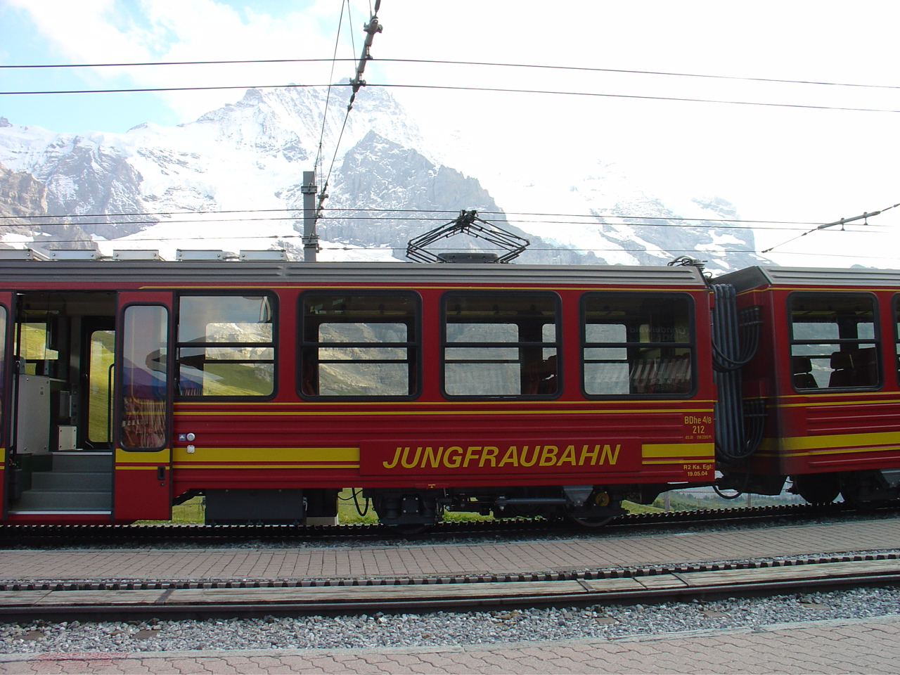 The Jungfraubahn with in the backgound the Jungfrau